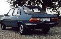 Peugeot 305 GLD, Series II